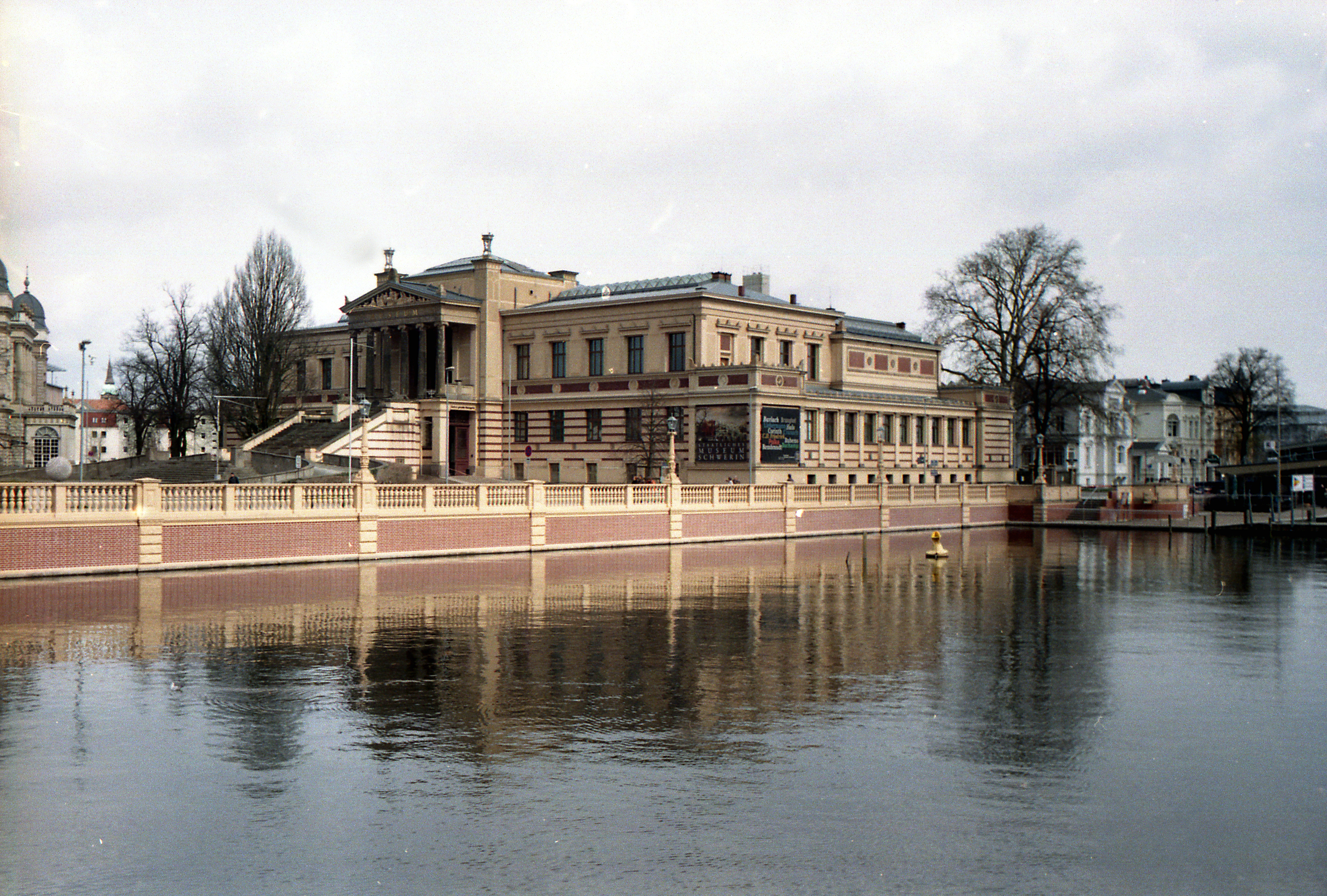 State Museum Schwerin, Mecklenburg-Vorpommern, Germany